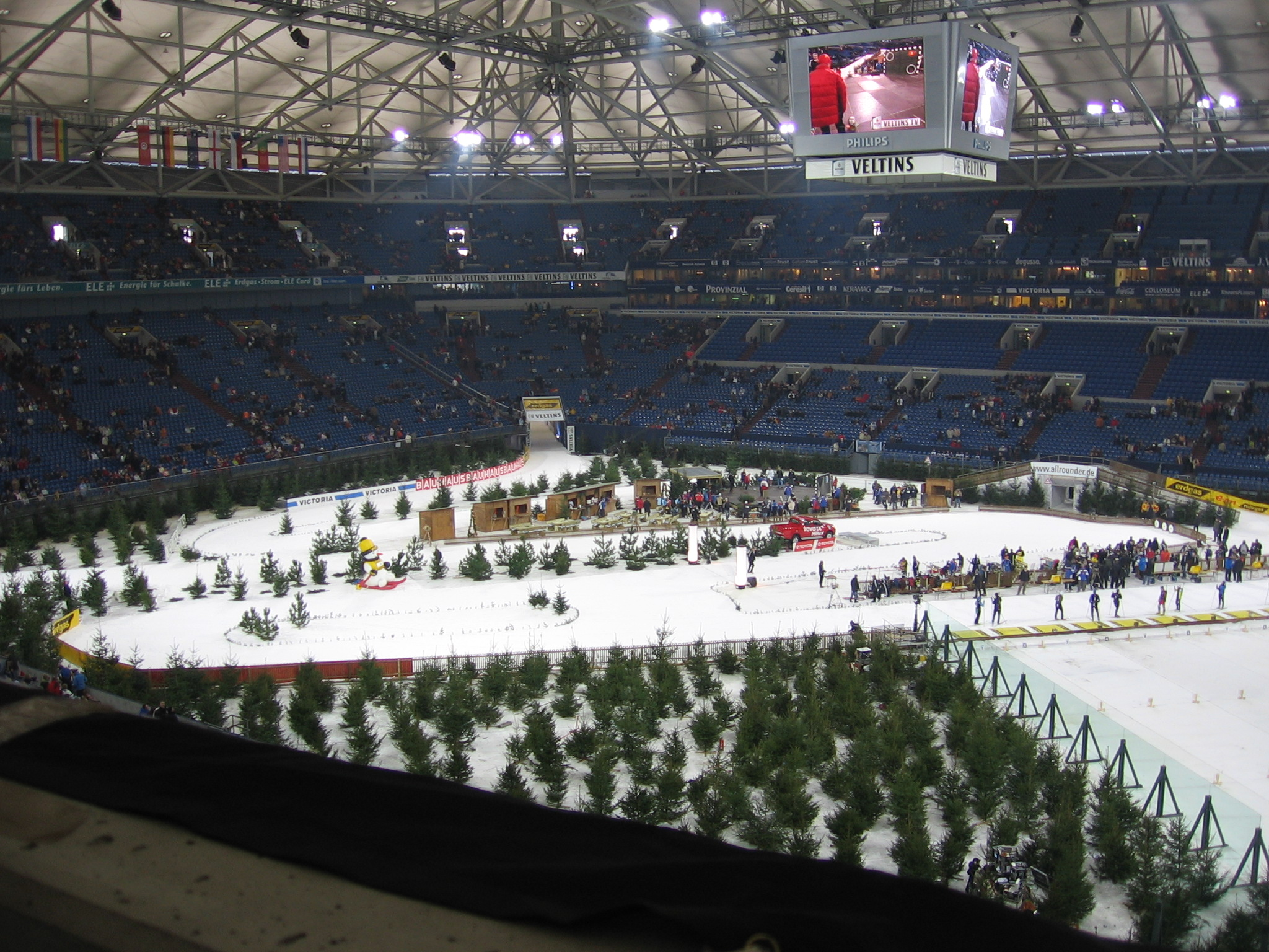 Photo of the Veltins-Arena during the Biathlon World Team Challenge, Gelsenkirchen.